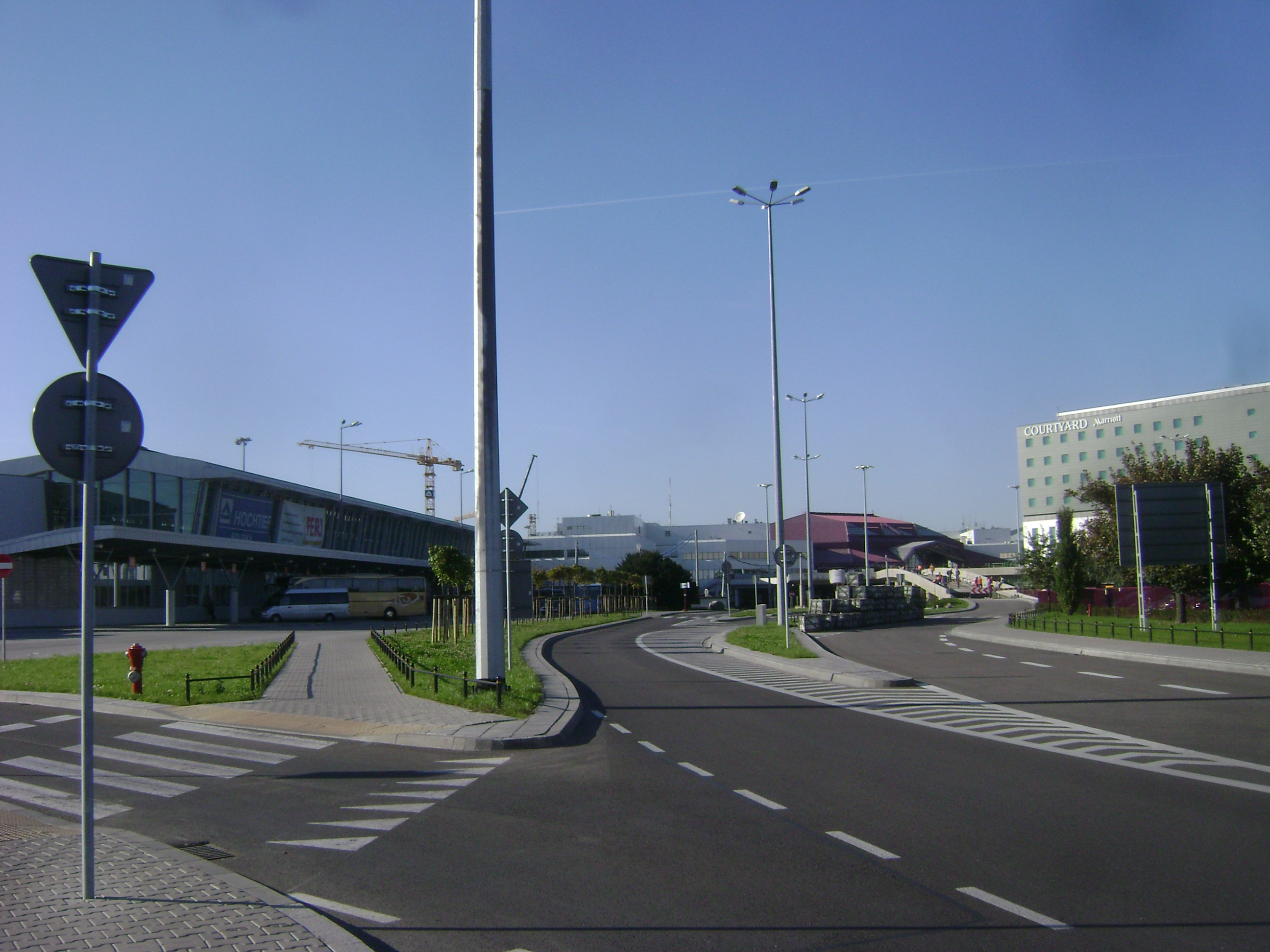 Poland. Warsaw. Okęcie, Warsaw Frederic Chopin Airport